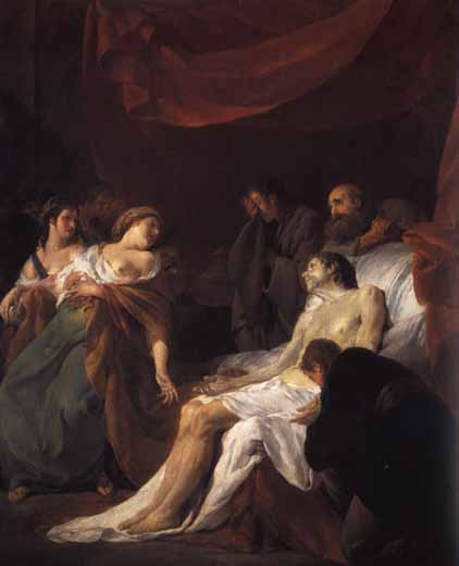 Death of Seneca